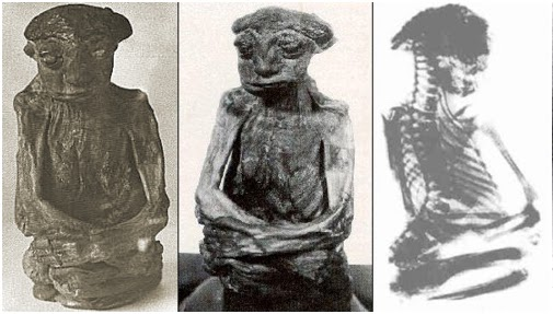 Here are multiple known photos and x-ray taken of the Mummy found in the San Pedro Mountain Range, WY.